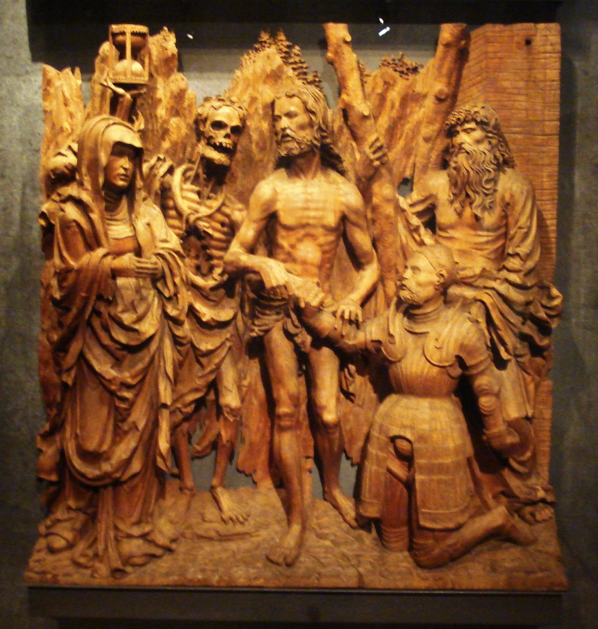 Zlíchov altarpiece